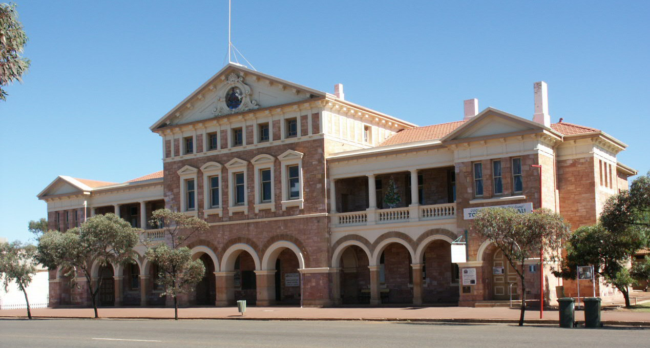 Coolgardie, Western Australia Warden's Court (not Town Hall as the image filename suggests).